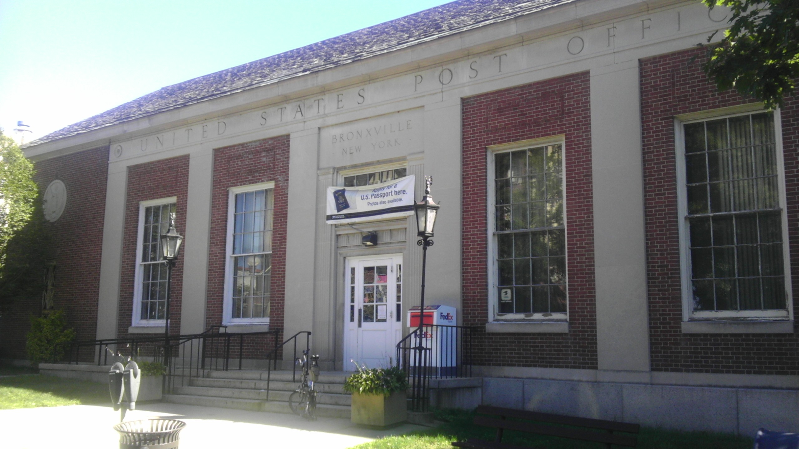 Looking north from Pondfield Road at US Post Office-Bronxville on a sunny morning.